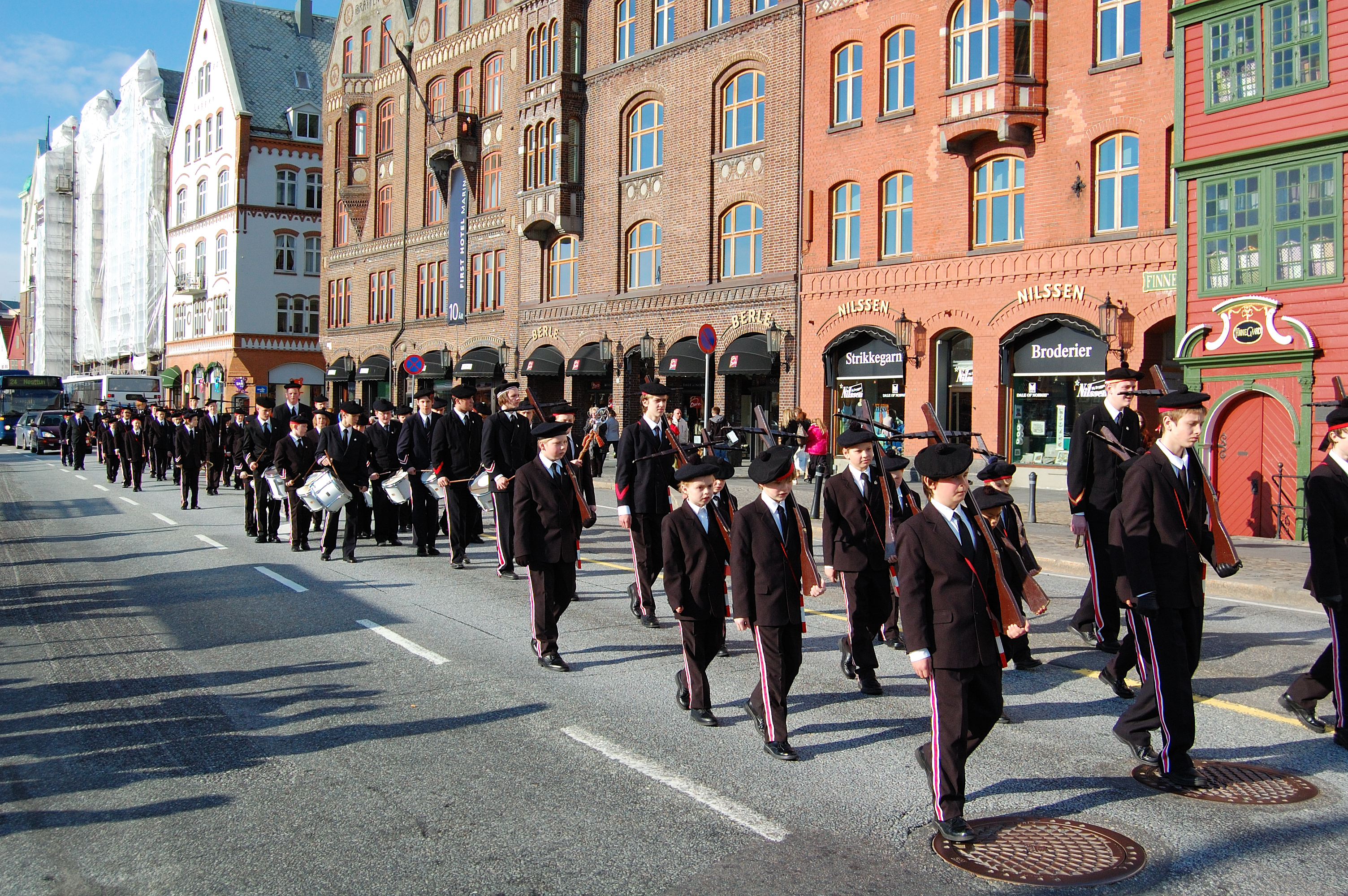 The Buekorps parade in Bergen on March 28, 2009.